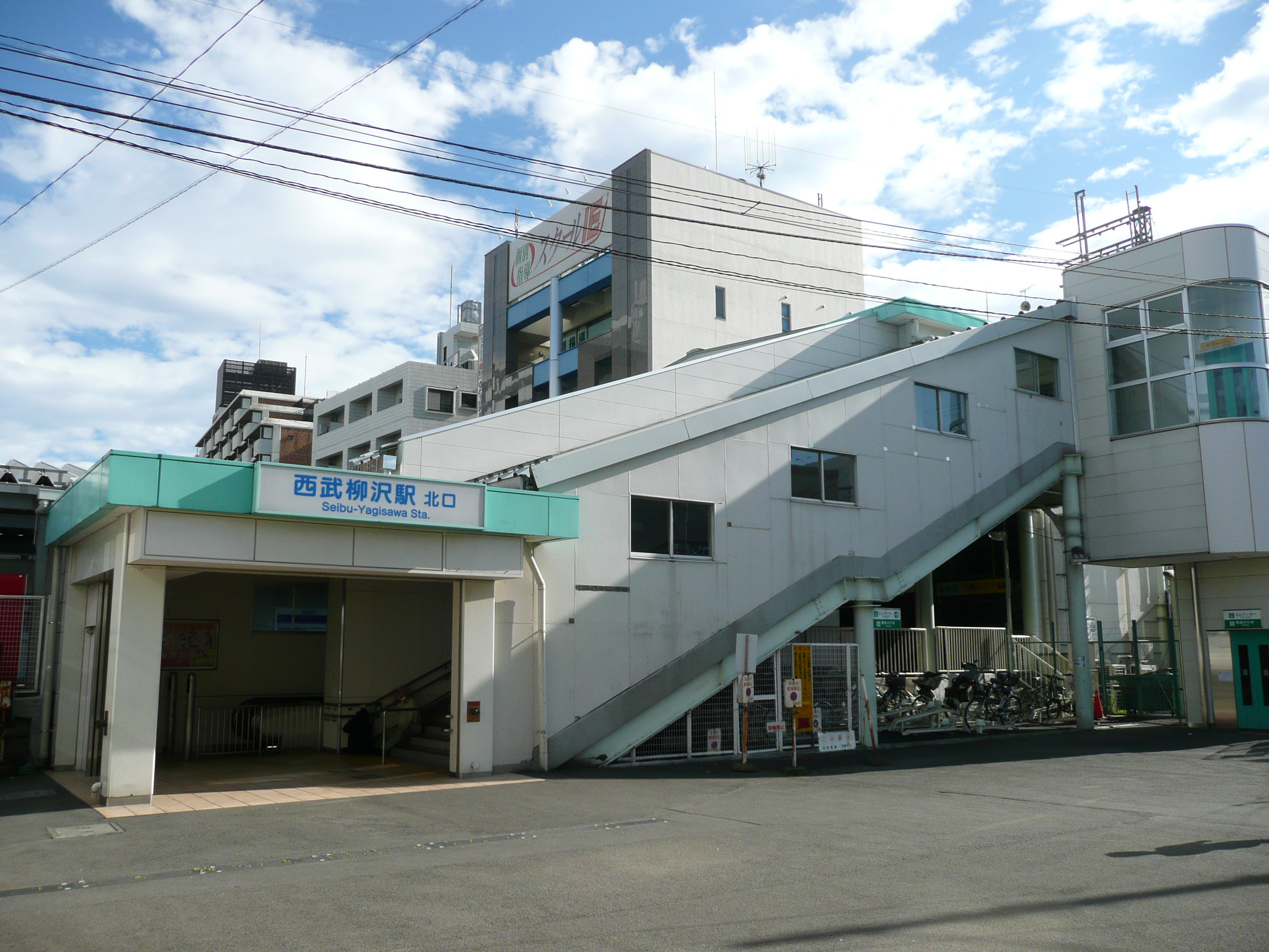 North Entrance of Seibu-Yagisawa Station